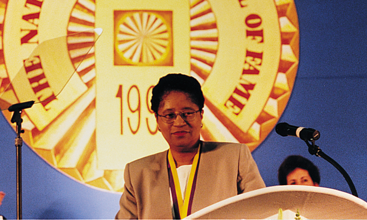 An important recognition